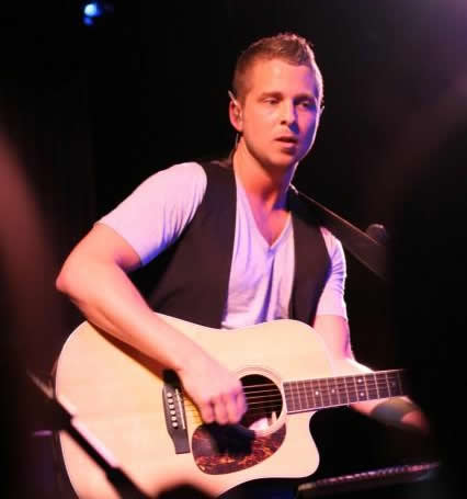 OneRepublic lead singer, Ryan Tedder performing with the band at the Canal Room, New York.